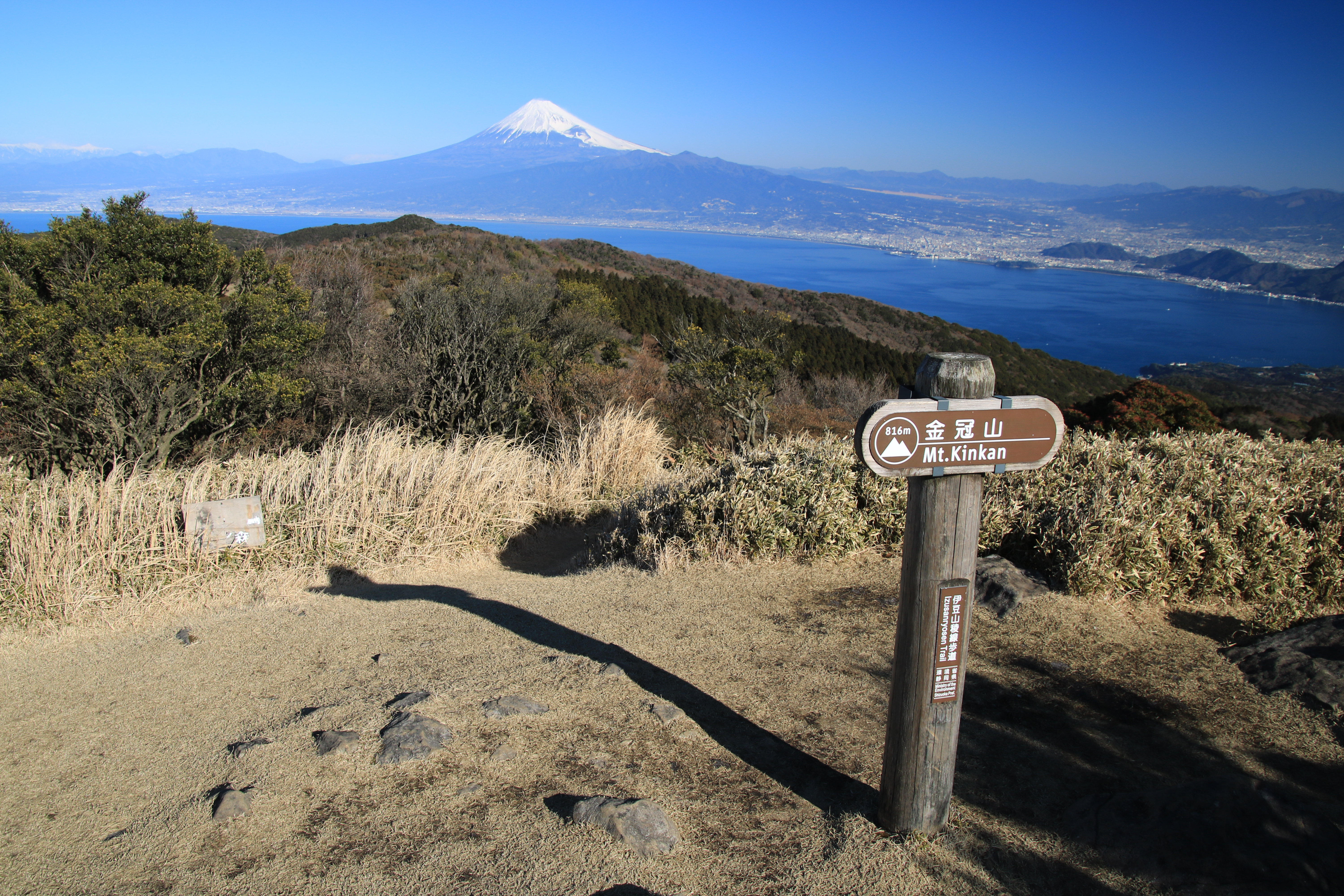 Peak of Mount Kinkan and Mount Fuji over Suruga Bay in Shizuoka prefecture, Japan. Canon EOS Kiss X8i